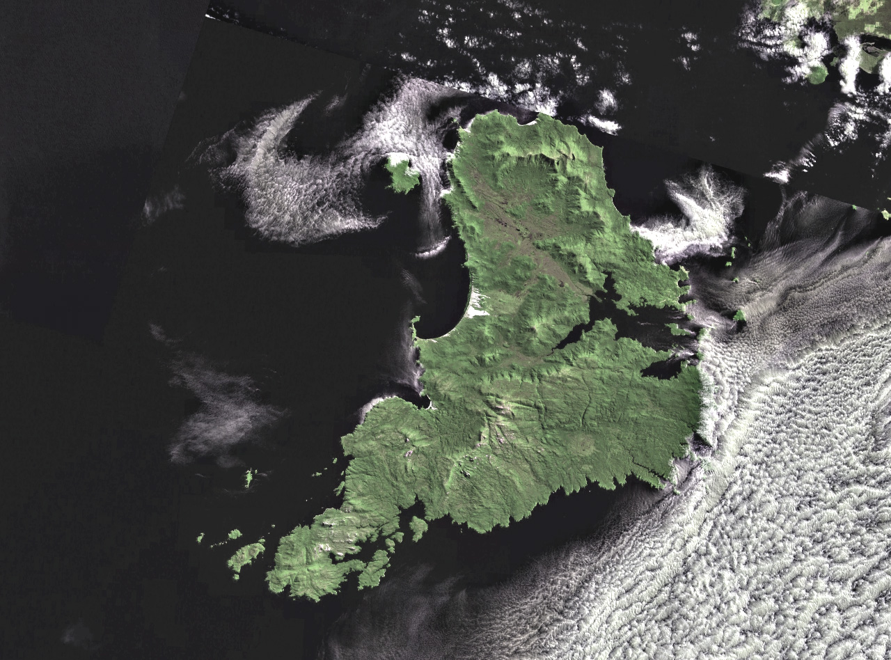 Stewart Island in New Zealand.